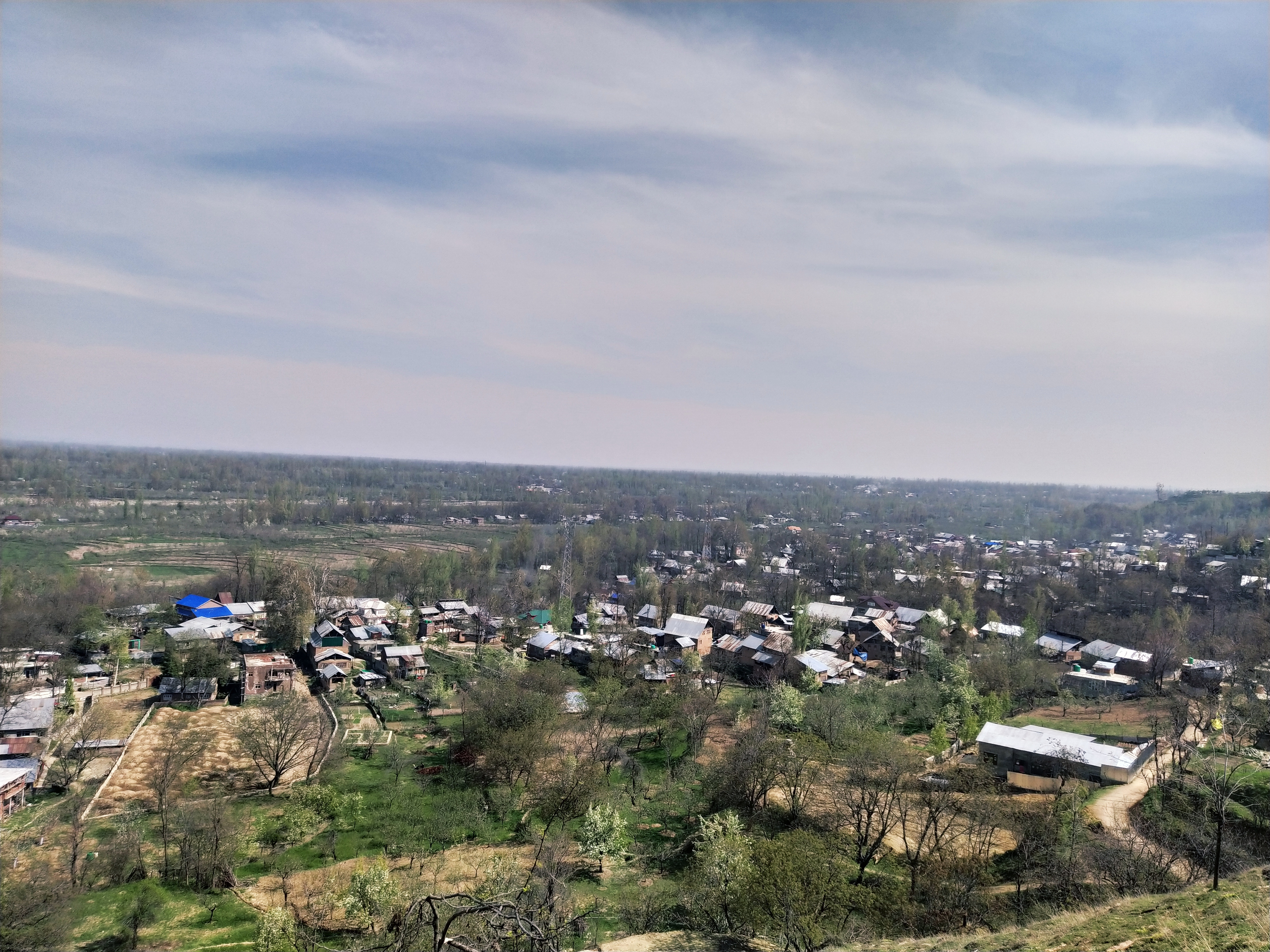 Aerial view of Rahmoo